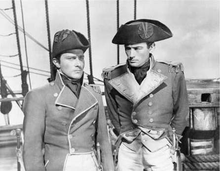 Publicity photo of Terence Morgan & Gregory Peck taken for film Captain Horatio Hornblower (1951). See also film still. No copyright notice